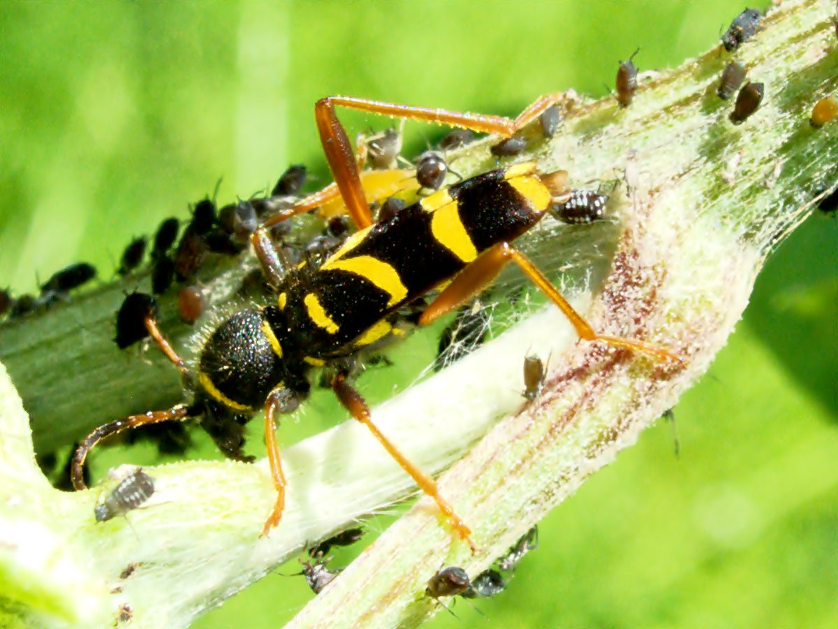 Name: Clytus arietis. Family: Cerambycidae. Location: Münster, NRW, Germany